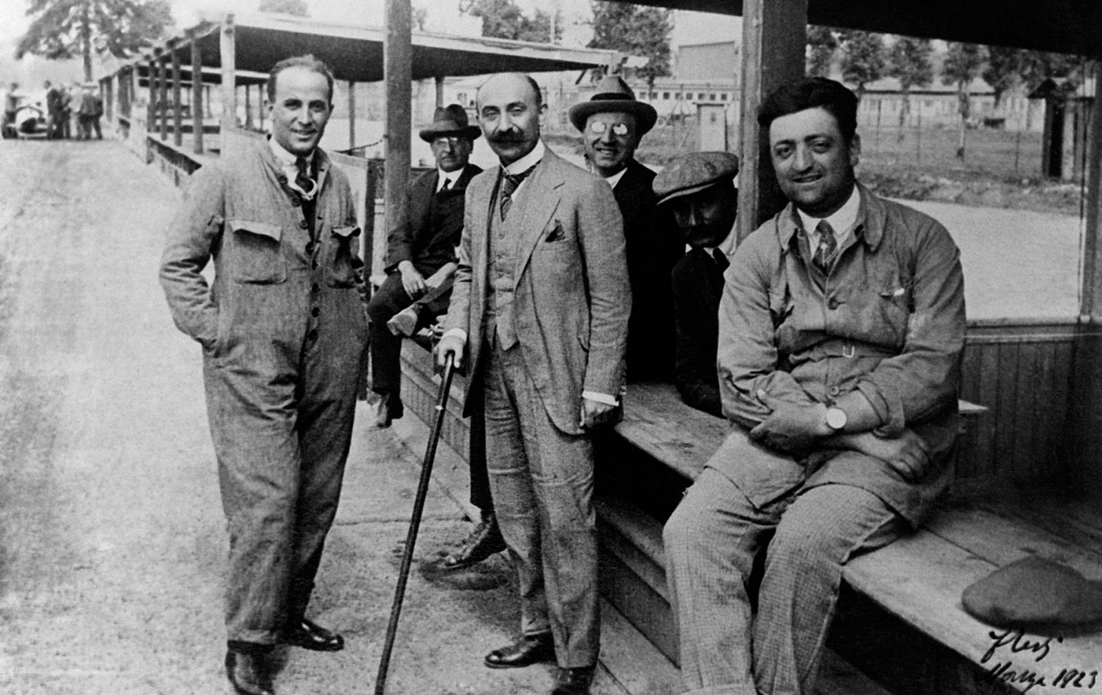 Enzo Ferrari (right), Nicola Romeo (middle) and engineer Giorgio Rimini (left). The writing says "Monza, 1923". Perhaps at 1923 Italian Grand Prix on 9 September 1923.[1]